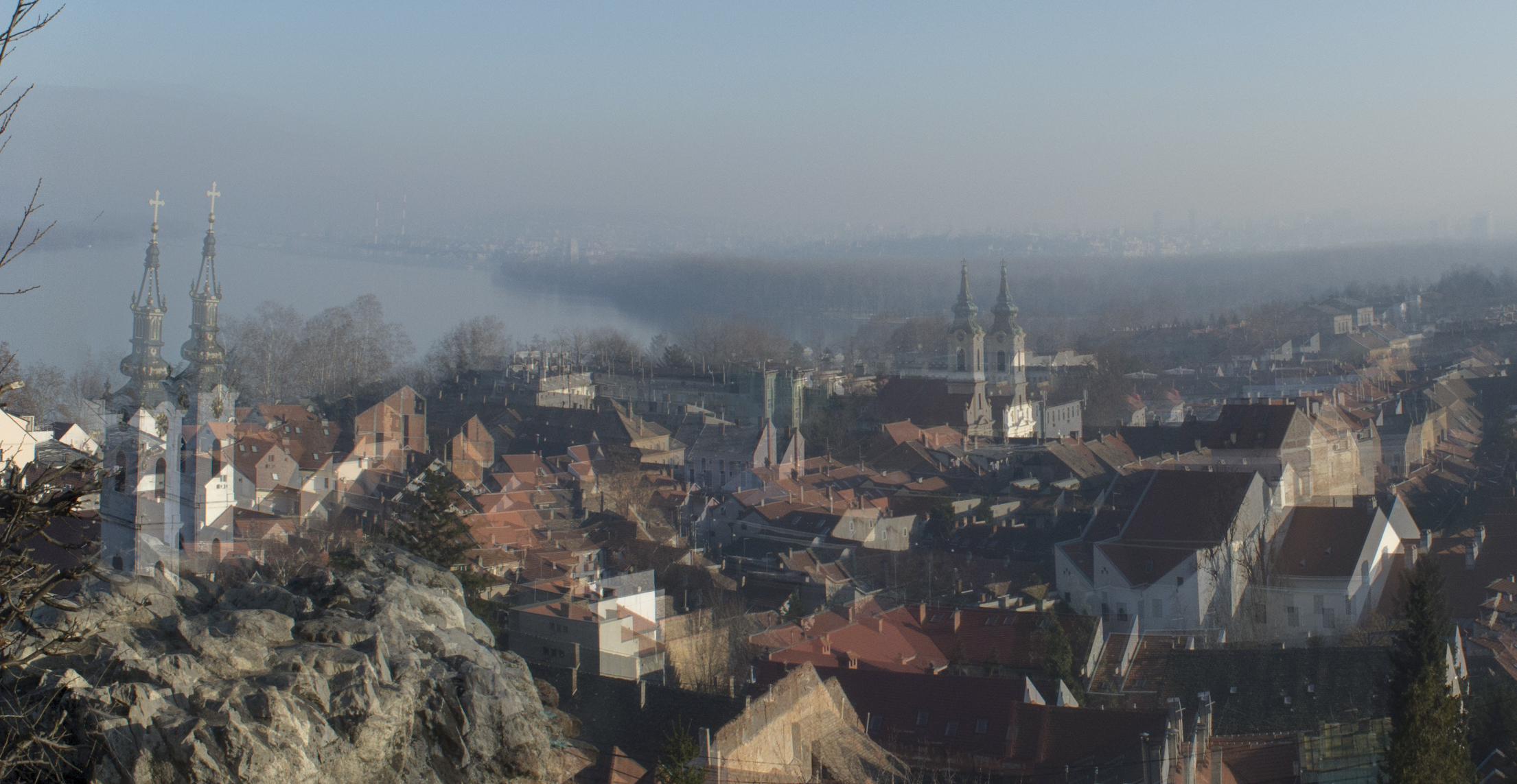 Detail of failed panoramic image. Upon editing in Hugin, doubling appeared as a result of parallax effect